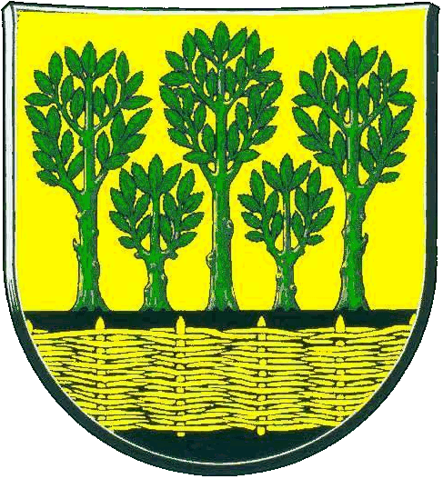 Coat of arms of the former Amt (county) Karrharde Blasonierung: In Gold auf schwarzem Schildfuß mit durchgehendem goldenen Flechtzaun drei hochstämmige grüne Bäume, deren mittlerer etwas überhöht ist und deren freie Zwischenräume durch zwei kleine grüne Bäume gefüllt sind.